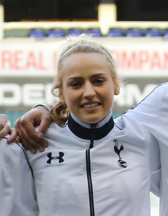 Tottenham Hotspur LFC v West Ham United LFC, 19 April 2017